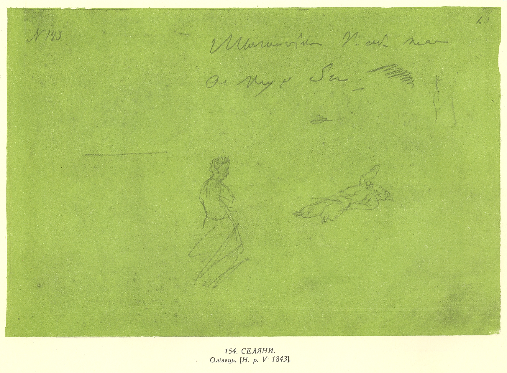 Painting of Taras Shevchenko